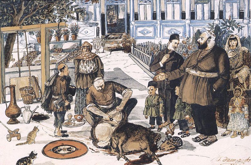 Qurban bayrami. Azim Azimzade. 1931